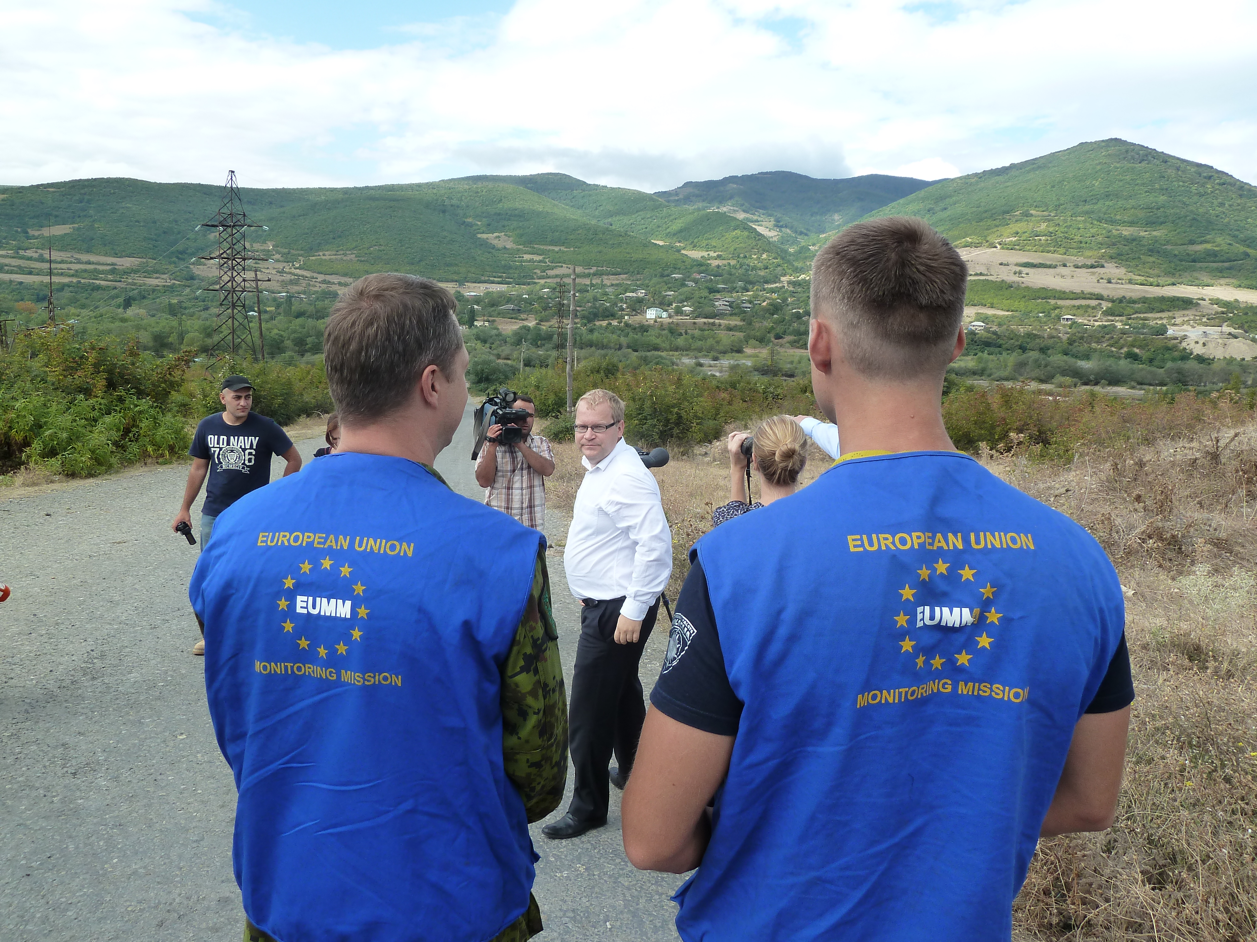 FM Urmas Paet with EUMM representatives in Odzisi